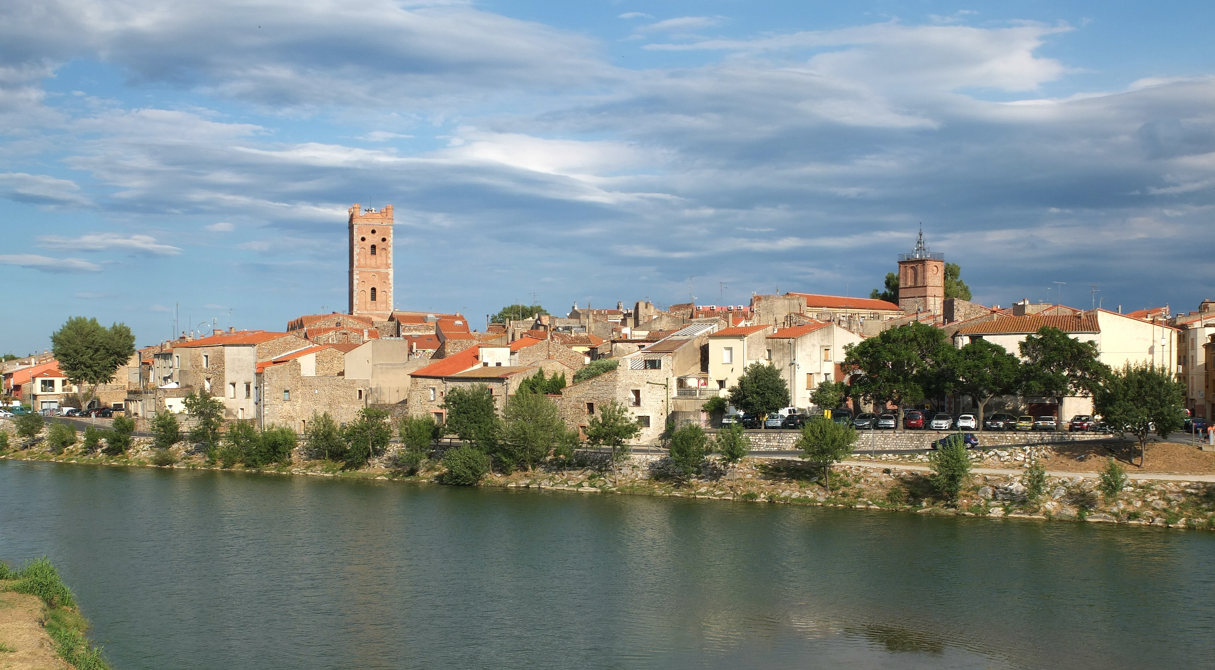 General view ow Rivesaltes, France (view West)